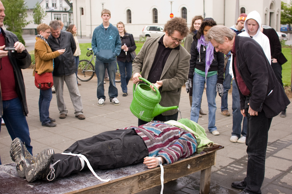 Photo from a protest against waterboarding, on the occasion of Condoleezza Rice's visit to Iceland, by Campaign Against Military Bases. Condoleezza Rice was invited to the protest and to try waterboarding for herself but as she didn't show some volunteers tried it out for themselves.